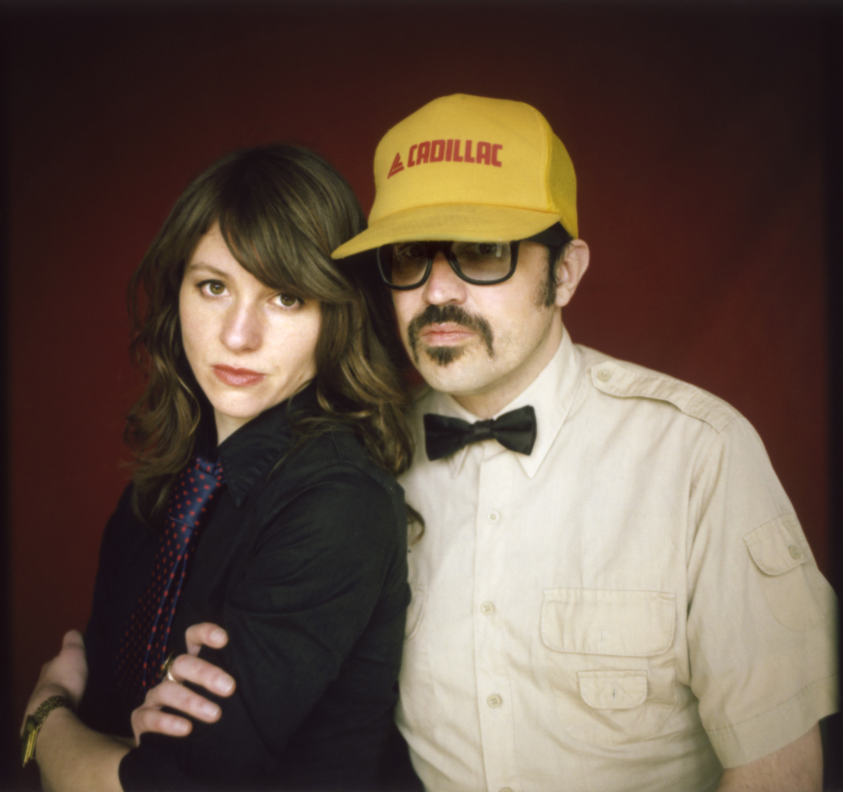 Anne and Hacker